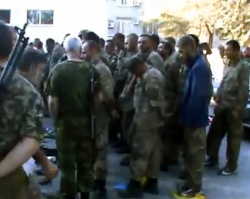 A group of prisoners of war from «Donbass» and «Aidar» battalions captured in Ilovaisk. Video has been created in Donetsk.